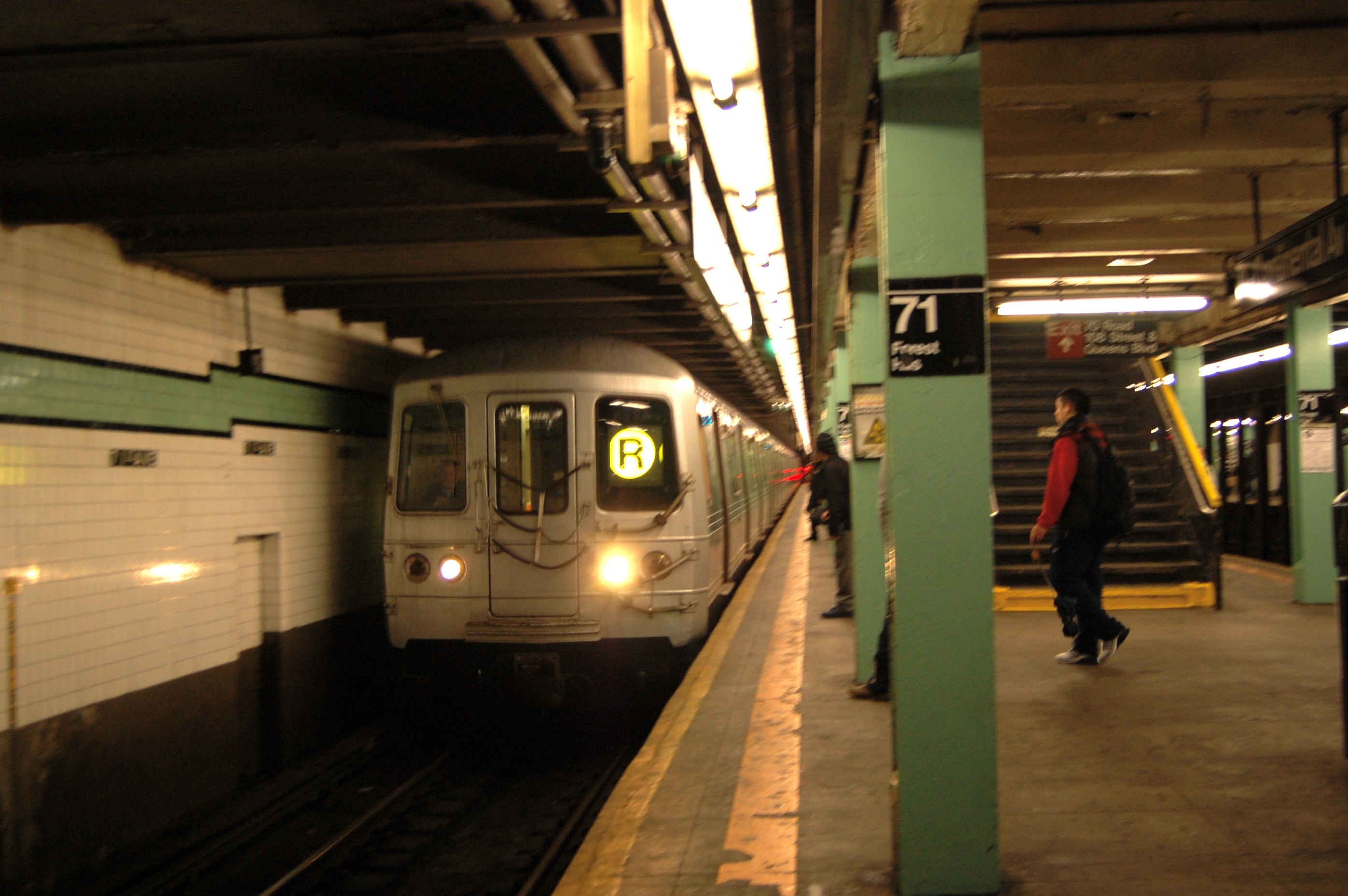 An R train arriving at its last stop, Forest Hills - 71st Continental Ave.